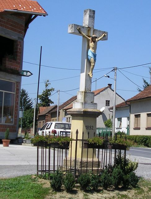 Crucifix in Virje, Miholjanska and Novigradska street